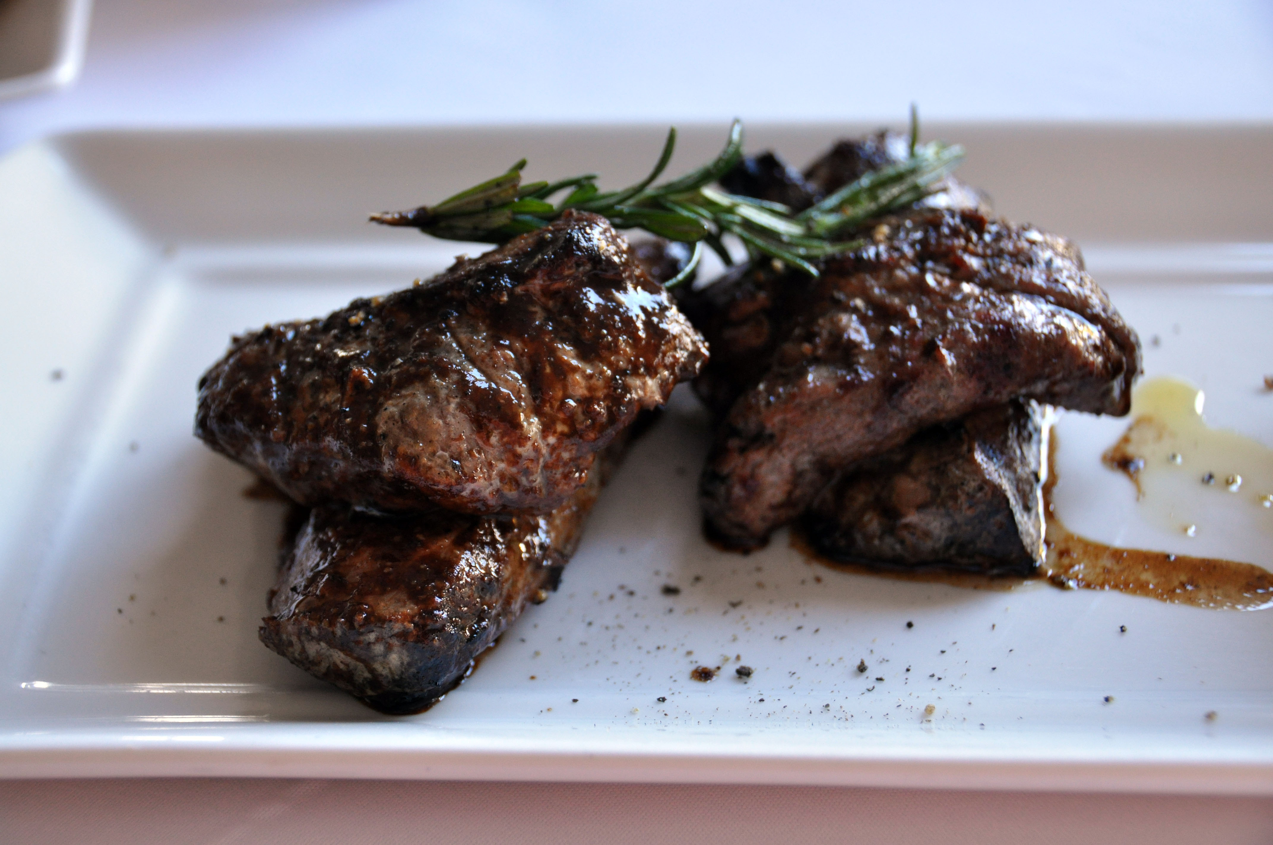 A delicious lunch of Zebra and Kudu